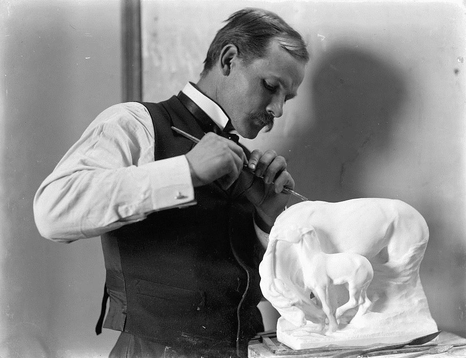 Solon Borglum, the American sculptor (1868-1922), about 1902